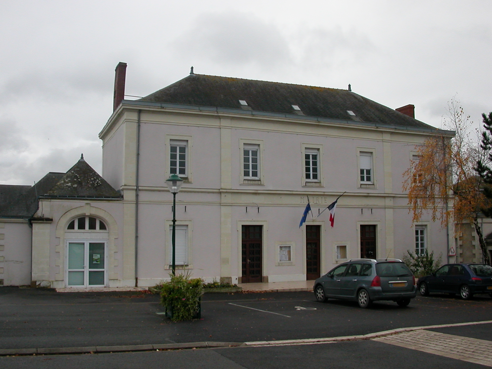 Town hall of Champtocé-sur-Loire